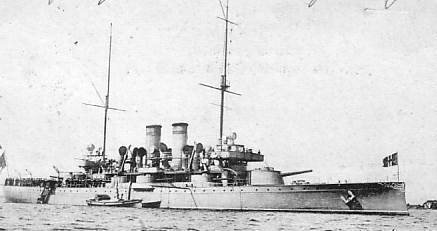 Postcard of the Swedish battleship HMS Wasa in Karlskrona, during spring 1903.